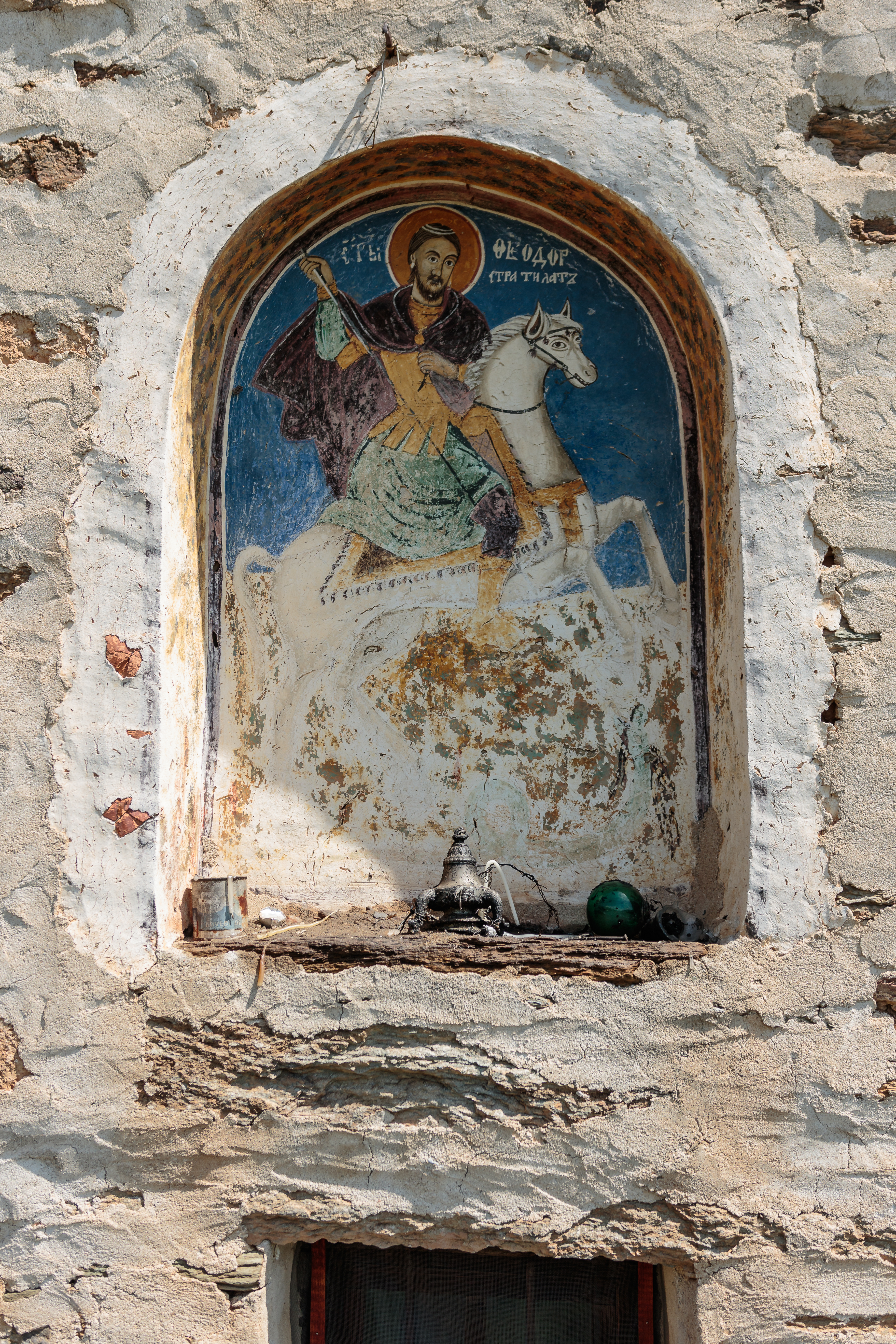 St. Demetrious Church in the village Rakitnica